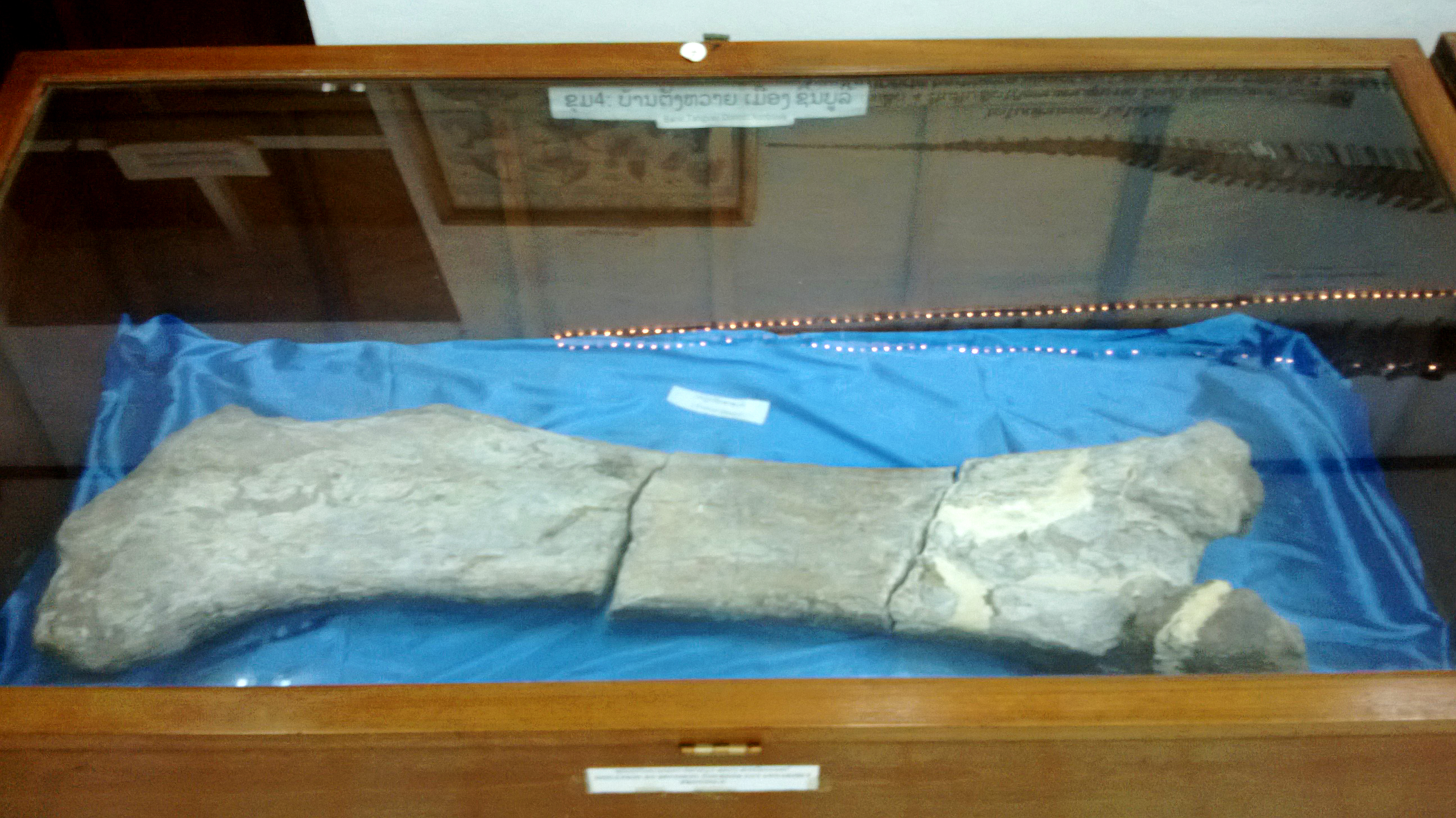 Femur Tangvayosaurus hoffeti (original). Dinosaur Museum, Savannakhet.